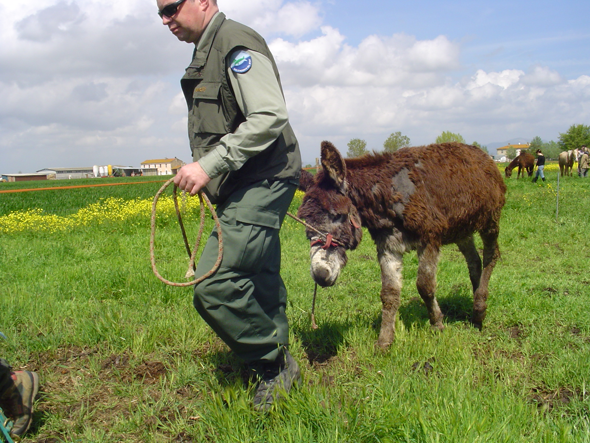 Italian horse Protection Association sequestration of a donkey (Domingo) under Law 189 of 2004 (Mistreatment of animals)